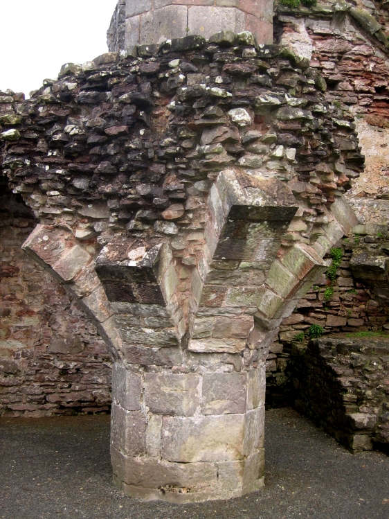 Coity Castle's central octagonal pier for the stone vaults that replaced wood floors during remodeling of the domestic range of the castle in the 14th century.